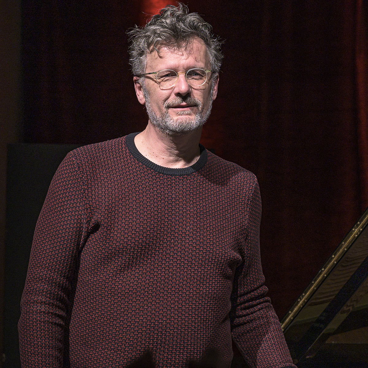 German jazzpiano player Uwe Oberg at Loft, Cologne, 2019, 3rd December